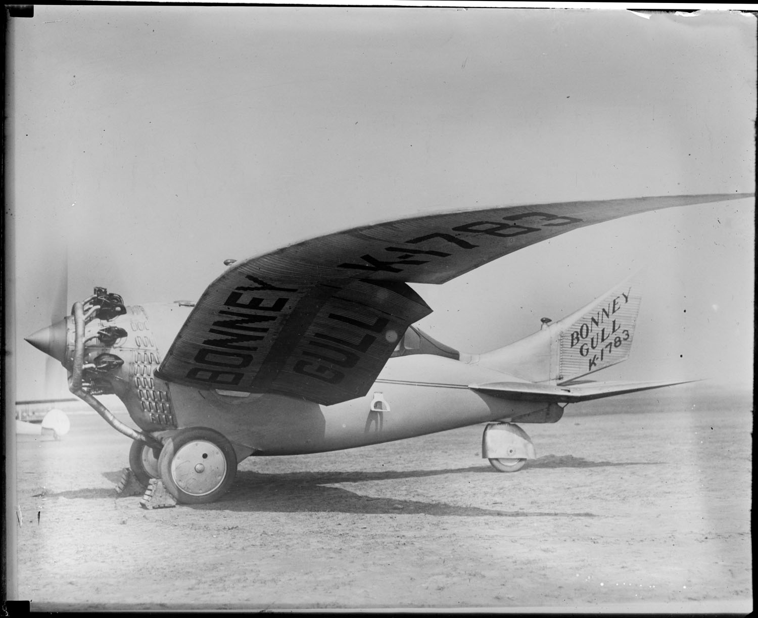 Bonney Gull before it crashed and killed its maker, Leonard Warden Bonney, at Curtis Field in 1928. Notes File name: 08_06_001480 Title: Bonney Gull before it crashed & killed its maker, Curtis Field, N.Y. Creator/Contributor: Jones, Leslie, 1886-1967 (photographer) Date created: 1928-05-05 Physical description: 1 negative : glass, black & white ; 4 x 5 in. Genre: Glass negatives Subjects: Airplanes Notes: Title and date from information provided by Leslie Jones or the Boston Public Library on the negative or negative sleeve. Collection: Leslie Jones Collection Location: Boston Public Library, Print Department Rights: Copyright © Leslie Jones.; PD-not renewed Preferred citation: Courtesy of the Boston Public Library, Leslie Jones Collection.